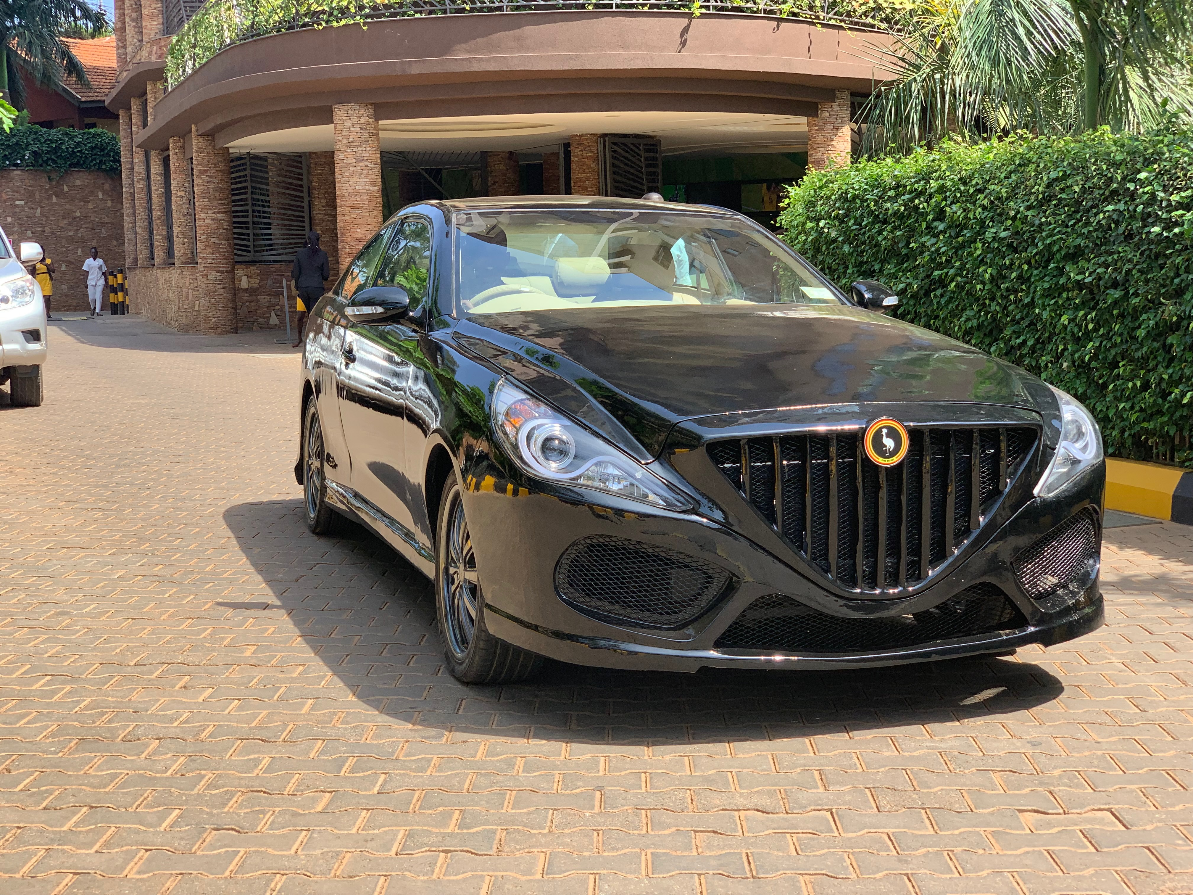 Kiira EVS